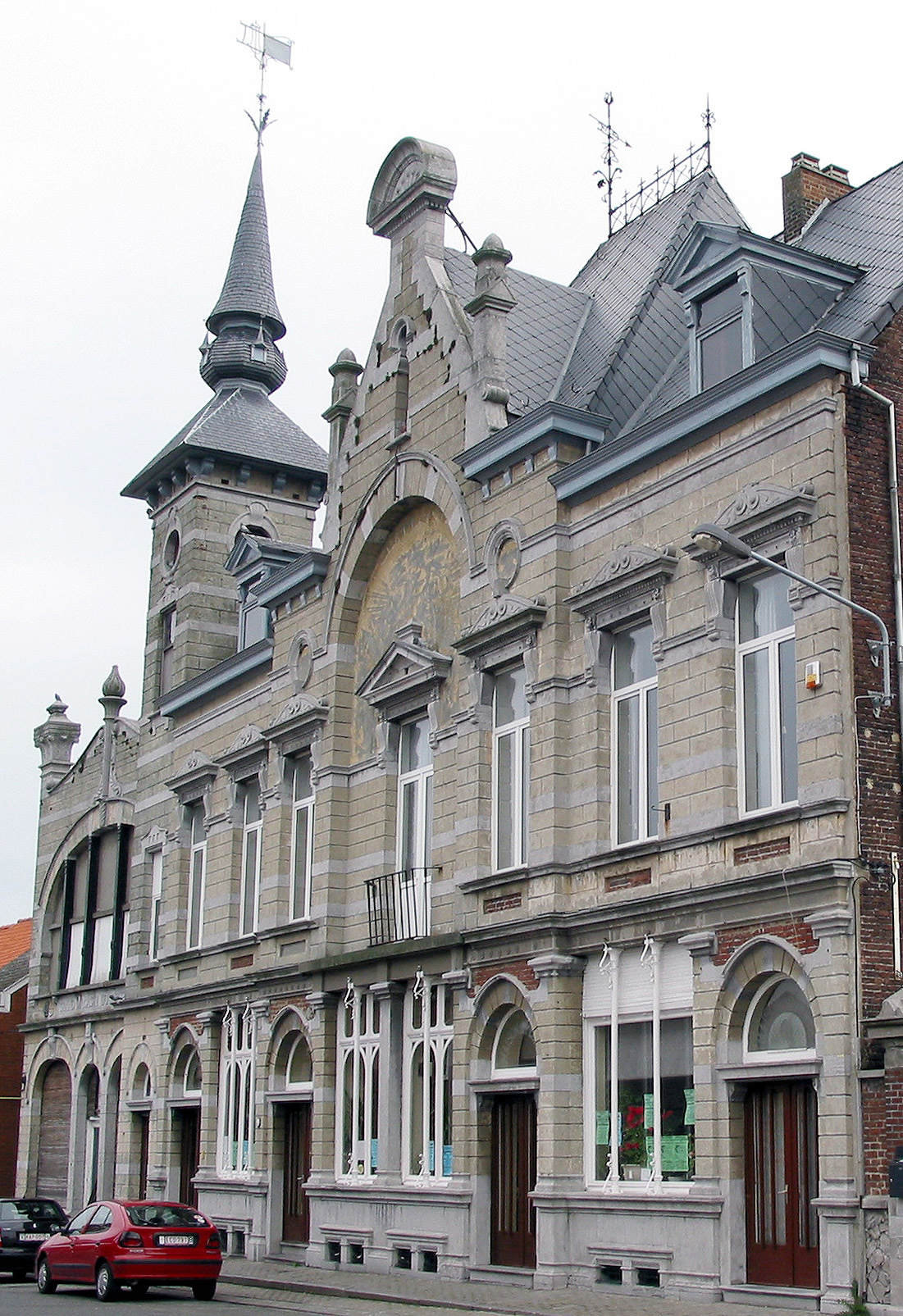 Pâturages (Belgium), the "Maison du Peuple" (1898) and the "Grand Magasin du Peuple" (1913) - Architect: Eugène Bodson).